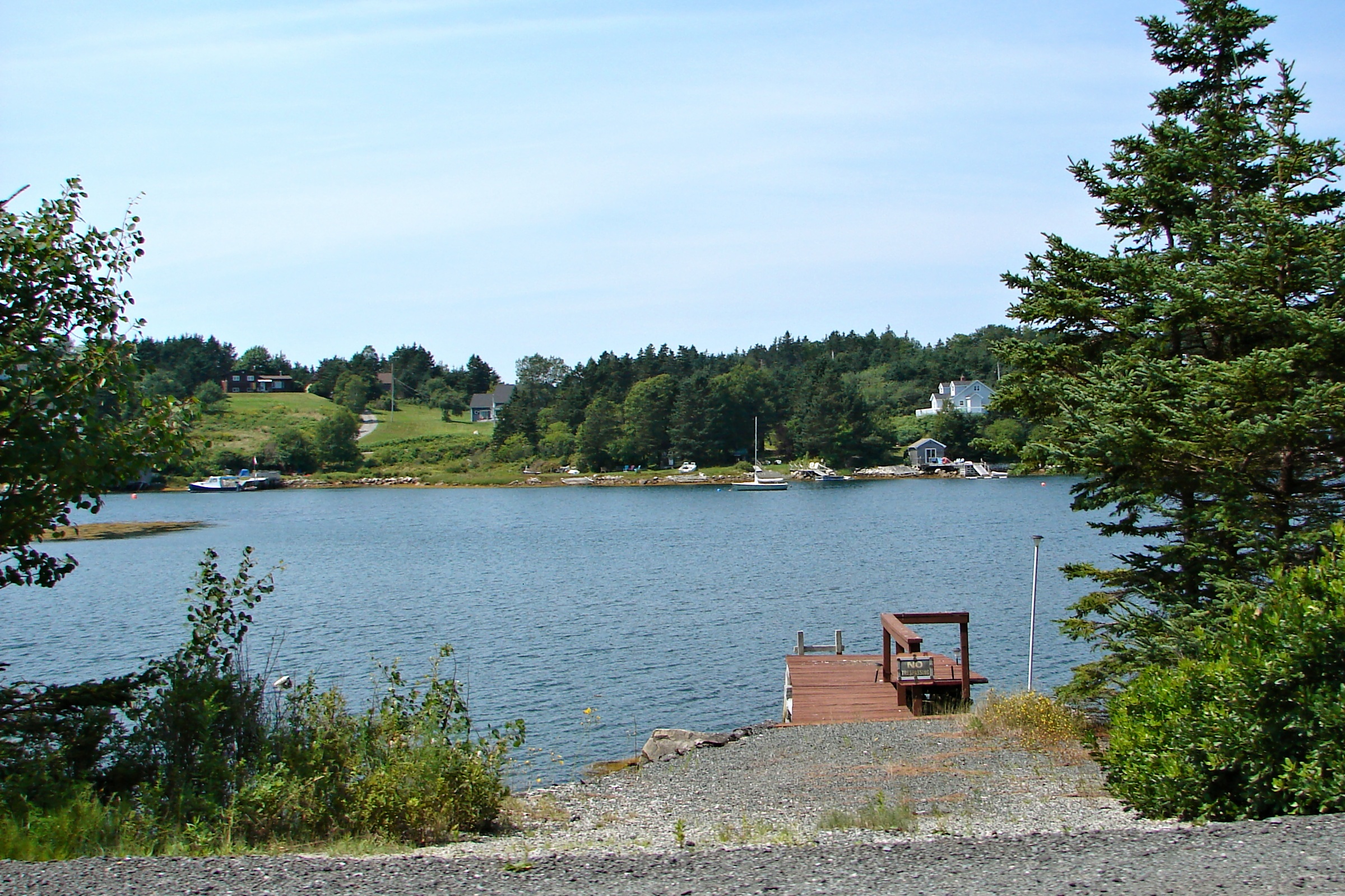 Hackett's Cove, Nova Scotia, Canada